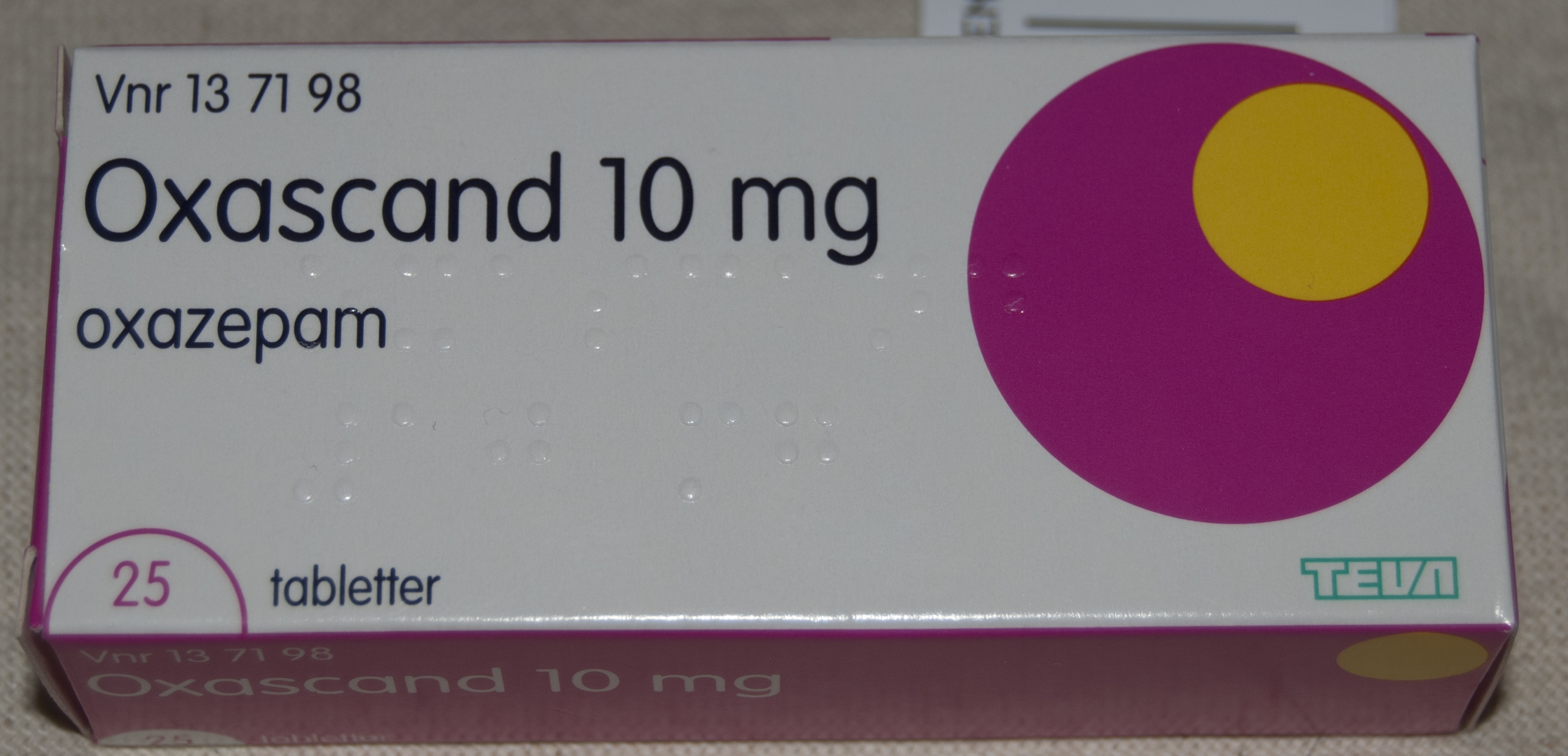 Oxascand 10 mg